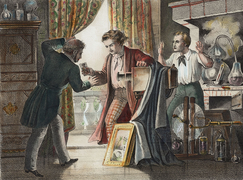 The original was created in 1851, so I think it is safe to say the author died a 100 years ago. It is claimed by Getty images on the site included at the link, but I boldly think the image is in the public domain. This is a chromolithograph by Chereau that depicts Louis Jacques Mande Daguerre and the nephew of Joseph Niepce, Claude-Felix-Abel Niepce de Saint-Victor.